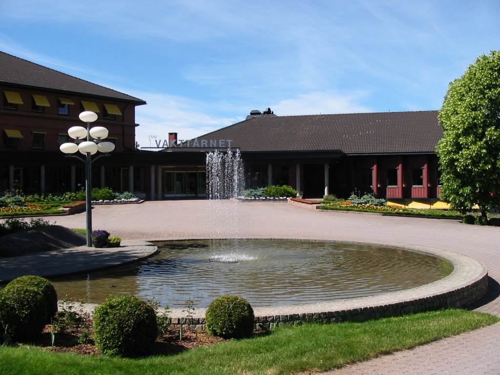 Watchtower Branch Office (Jehovah's Witnesses) in Norway (Ytre Enebakk)